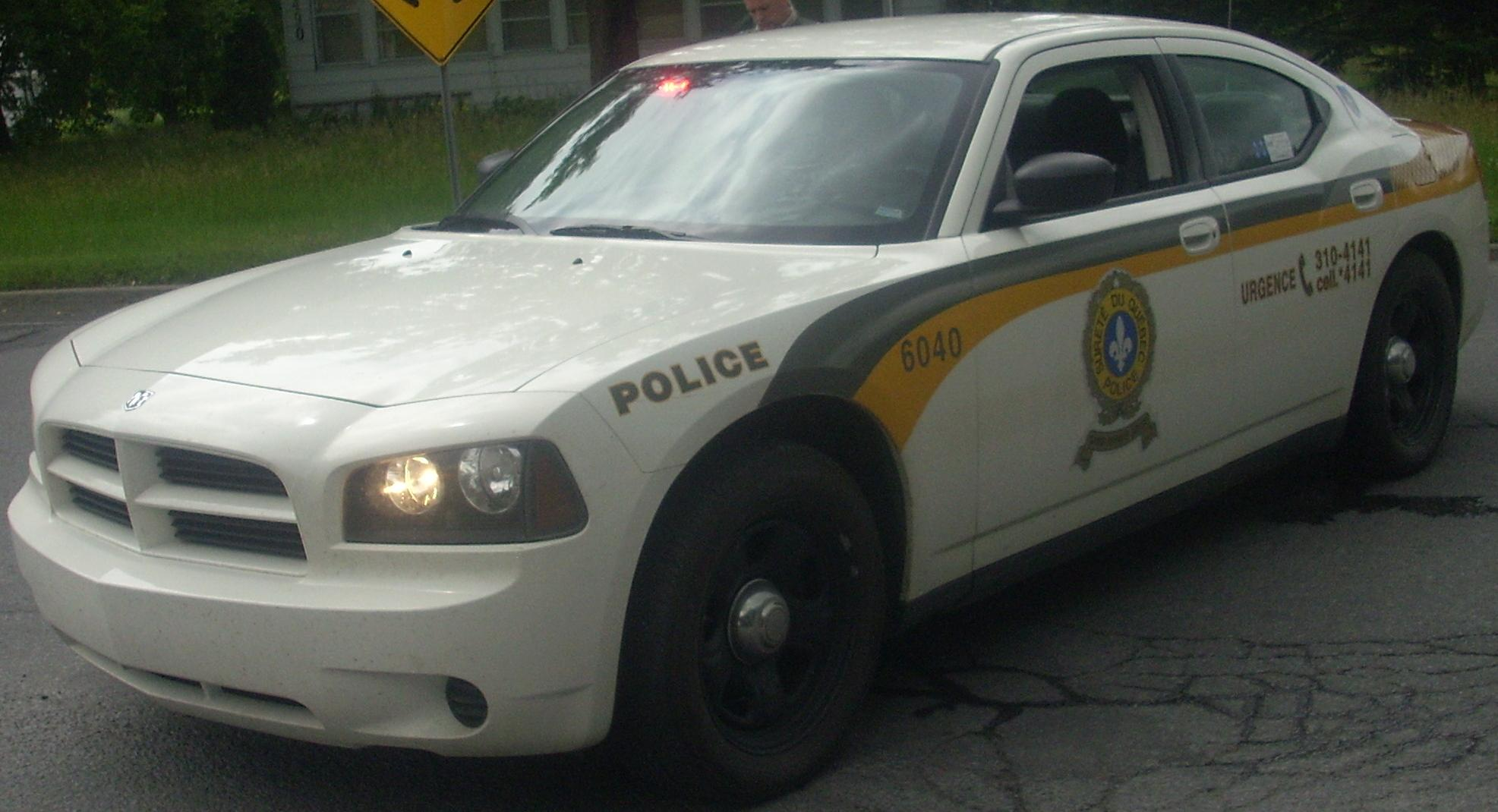 Dodge Charger photographed in St. Lazare, Quebec, Canada.